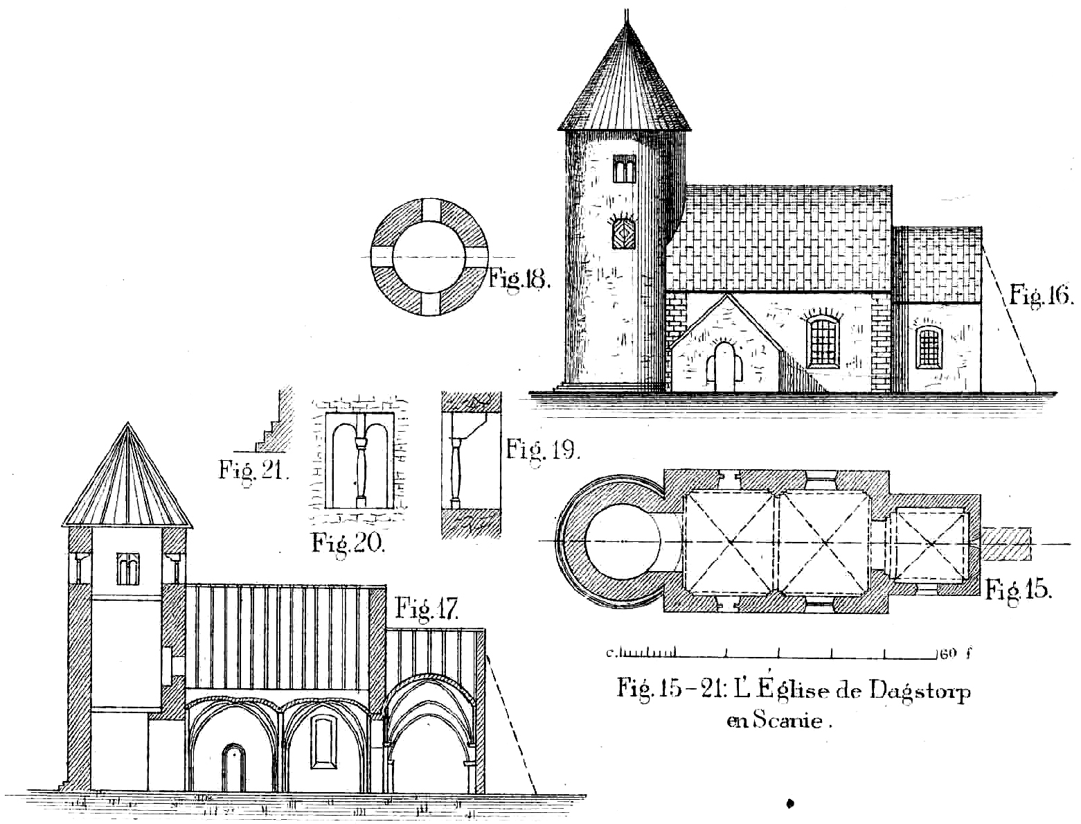 Dagstorp church in Sweden in the mid 1800's. Drawing: Nils Månsson Mandelgren, published 1883.